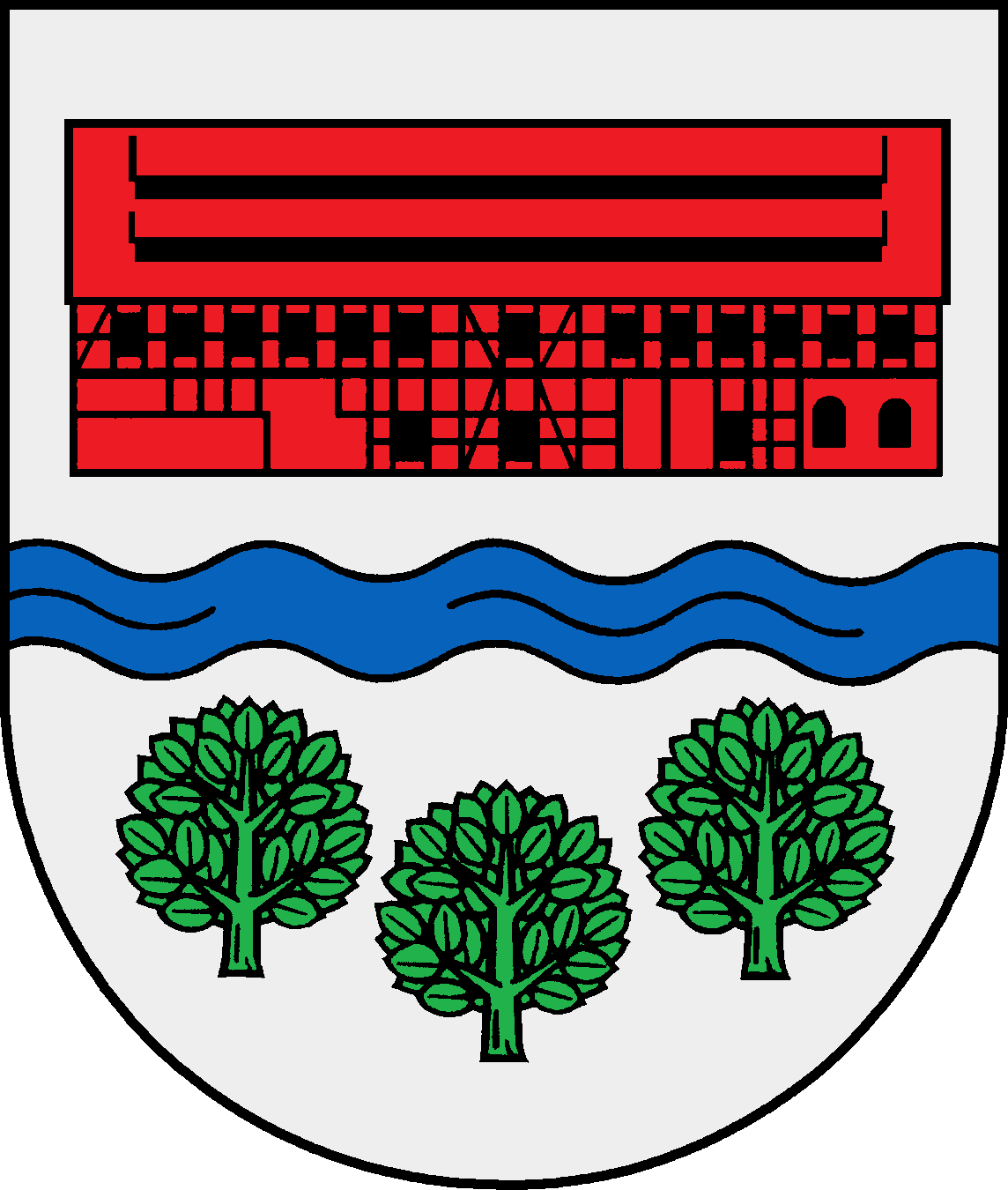 Coat of arms of the municipality Grönwohld in Schleswig-Holstein, Germany.